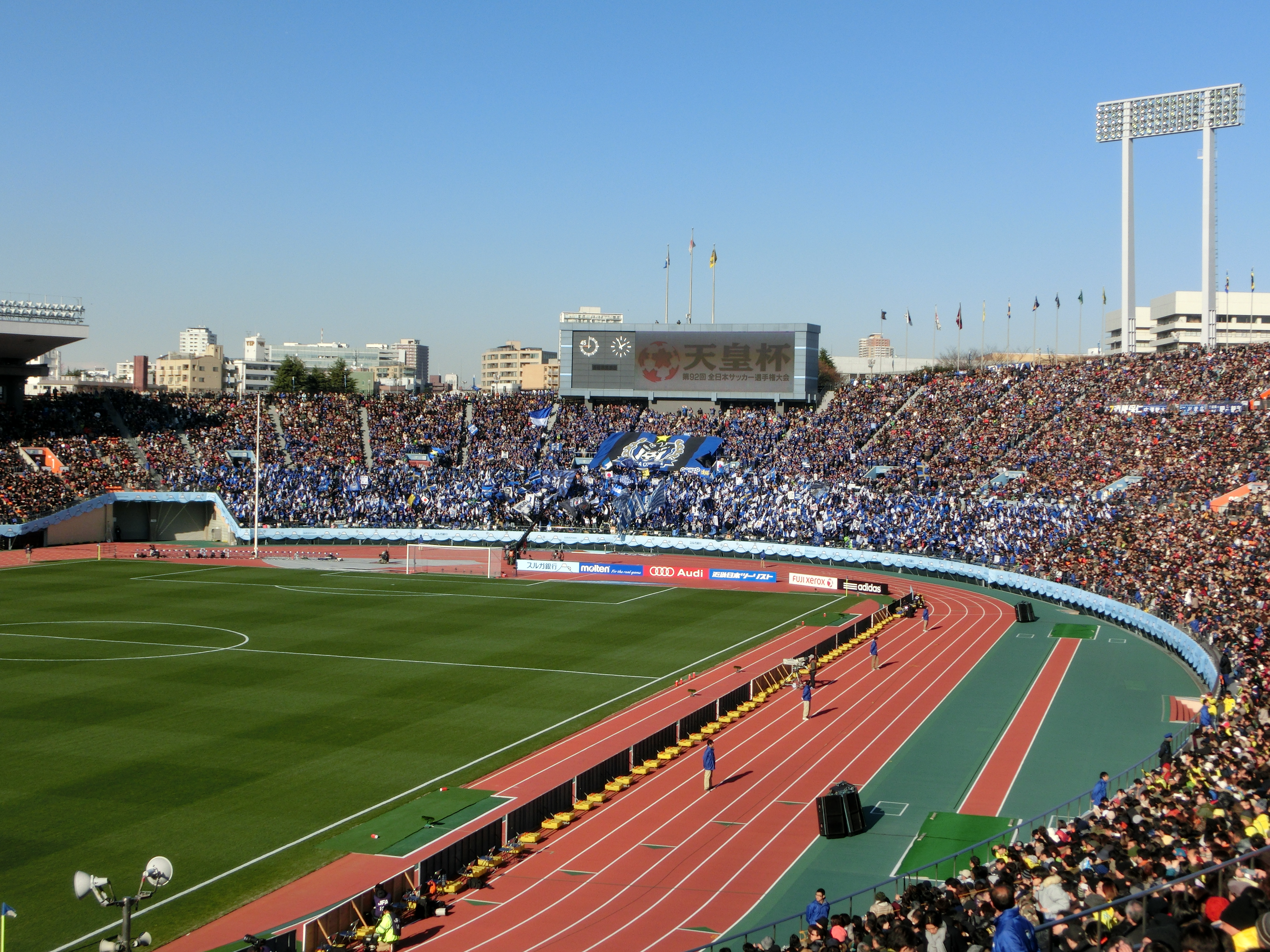 Emperors cup Final in Japan at Jan.1.2013